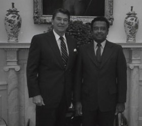 Gerald Eustis Thomas in Oval Office with Ronald Reagan